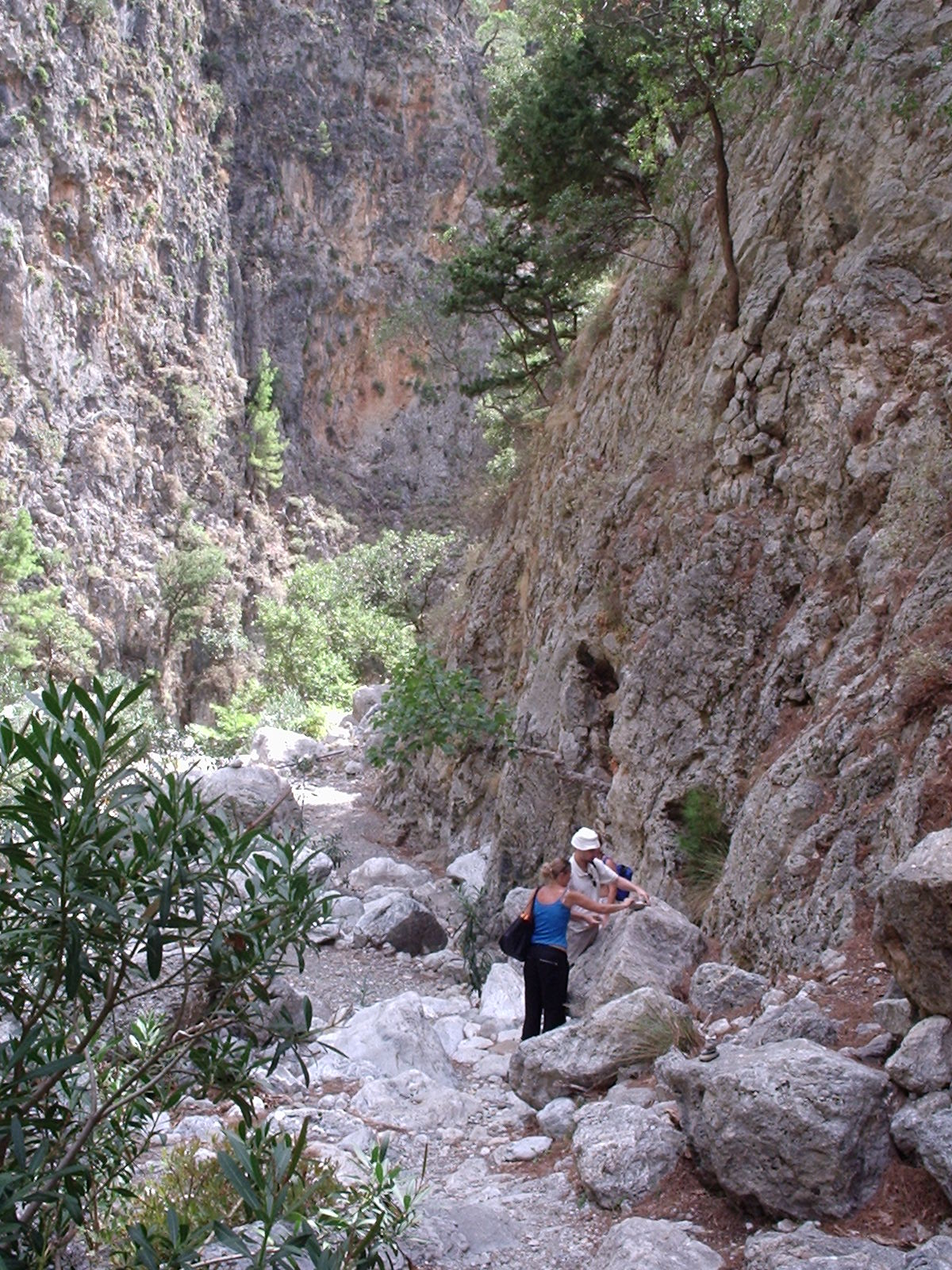 Aghia Irini Gorge